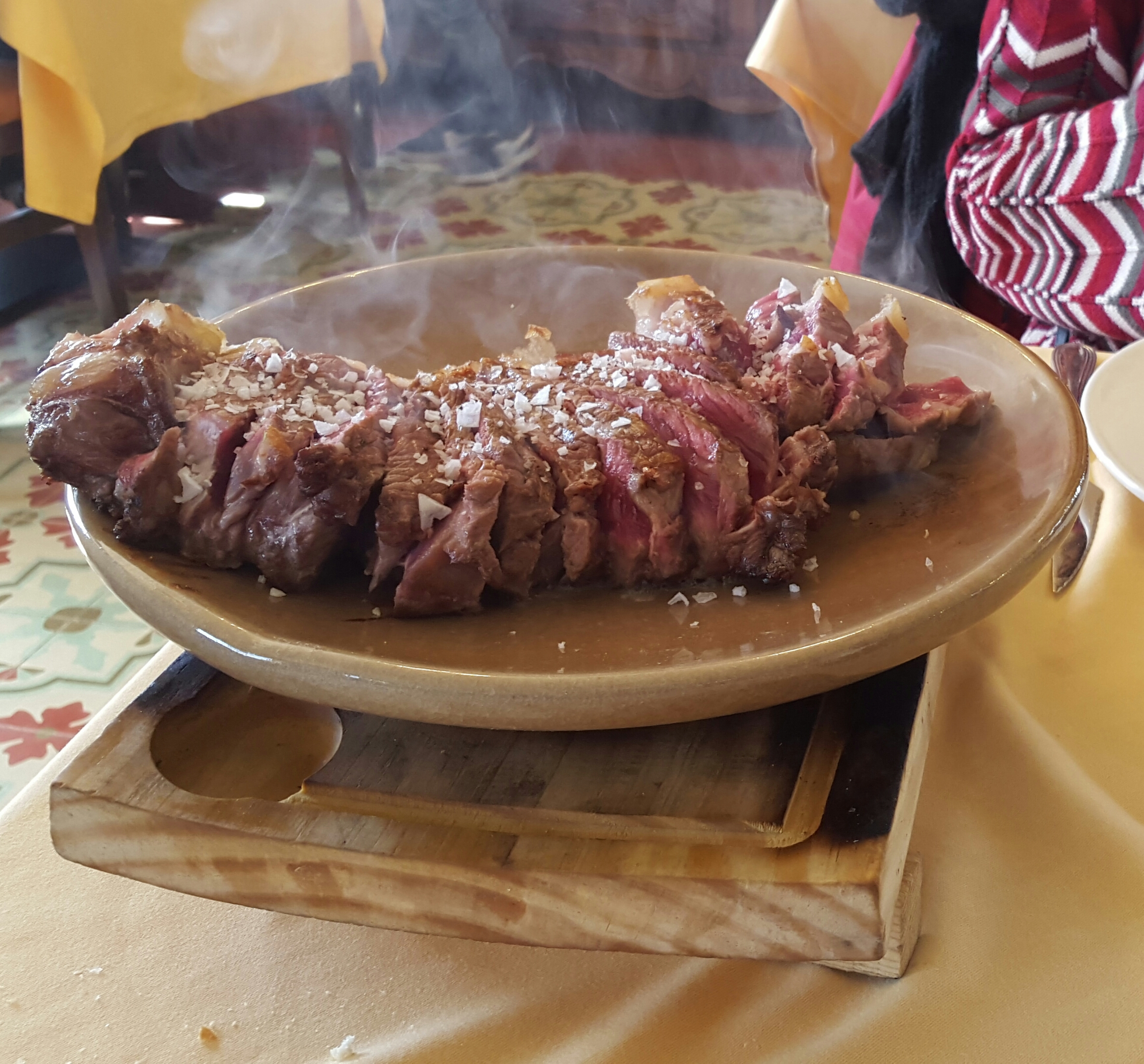 Chuletón de Ávila, beef from Ávila, Protected Geographical Indication, in La Torre, Ávila, Spain